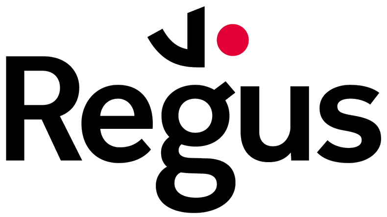 Logo of Regus.